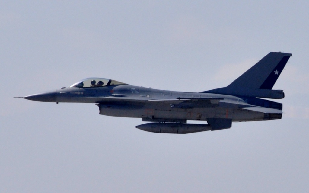 Pudahuel AFB, Santiago de Chile, March 2013